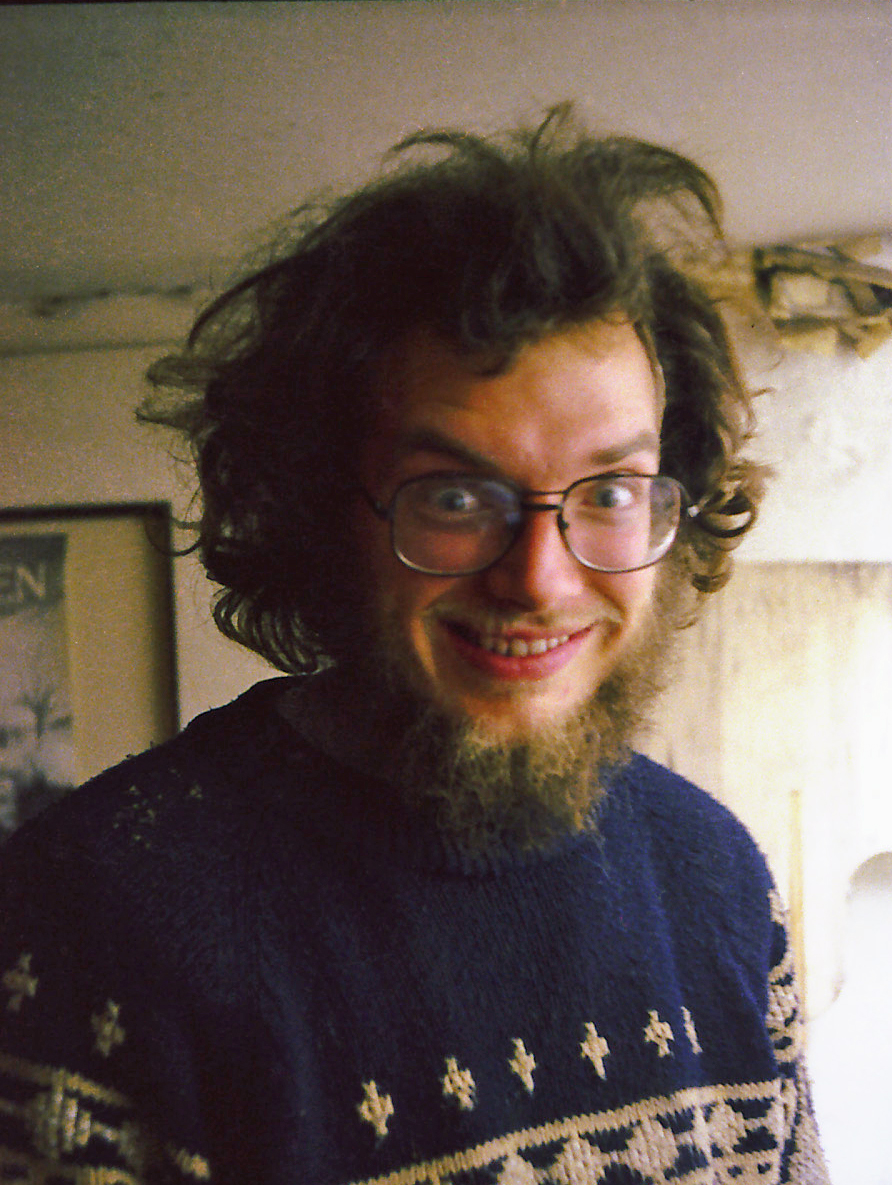 Mike van Audenhove, 1980